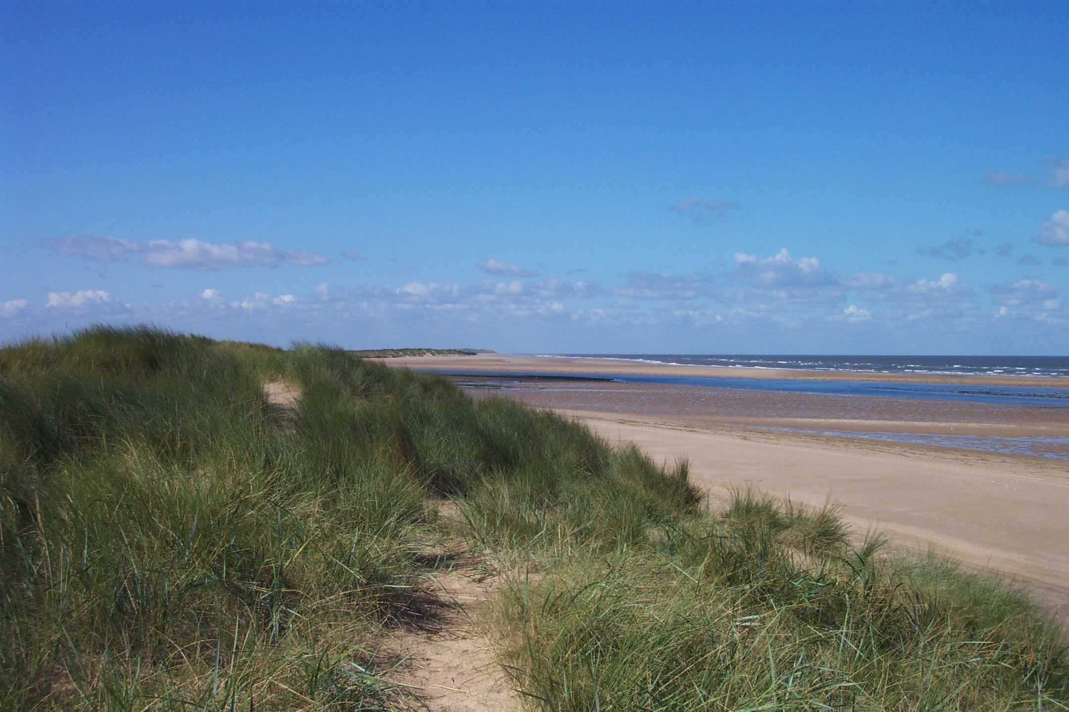 The coast near Burnham Overy Staithe, taken from the crest of the dunes at the end of the footpath from Staithe to beach. Beyond the dunes can be seen the entrance to the River Burn, which gives boat access to the Staithe. Beyond that is Scolt Head Island, a nature reserve accessible only by boat. For more information see the Wikipedia article Burnham Overy.